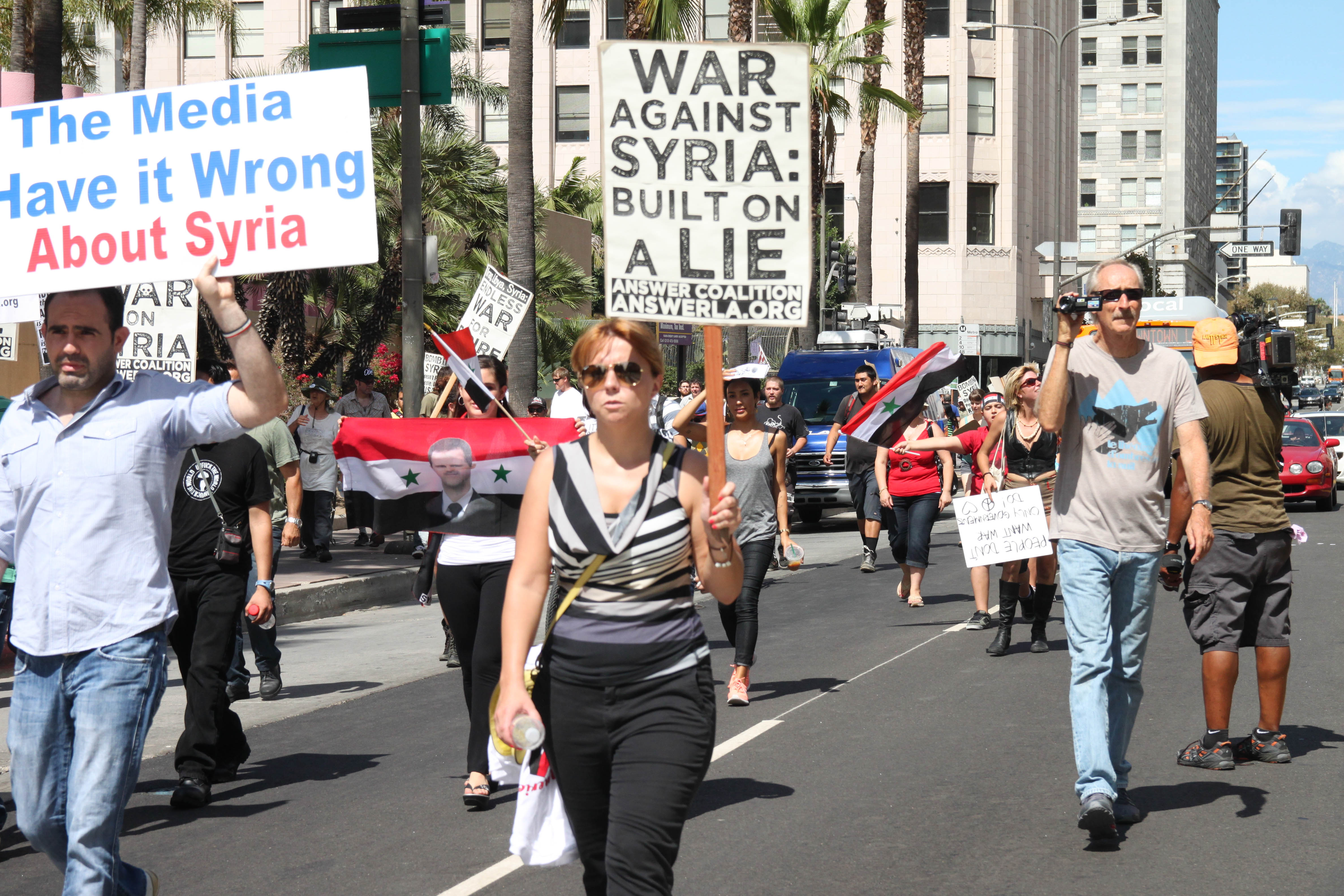 Syria Protest at Pershing Square in Downtown Los Angeles. Photo by Xizi (Cecilia) Hua